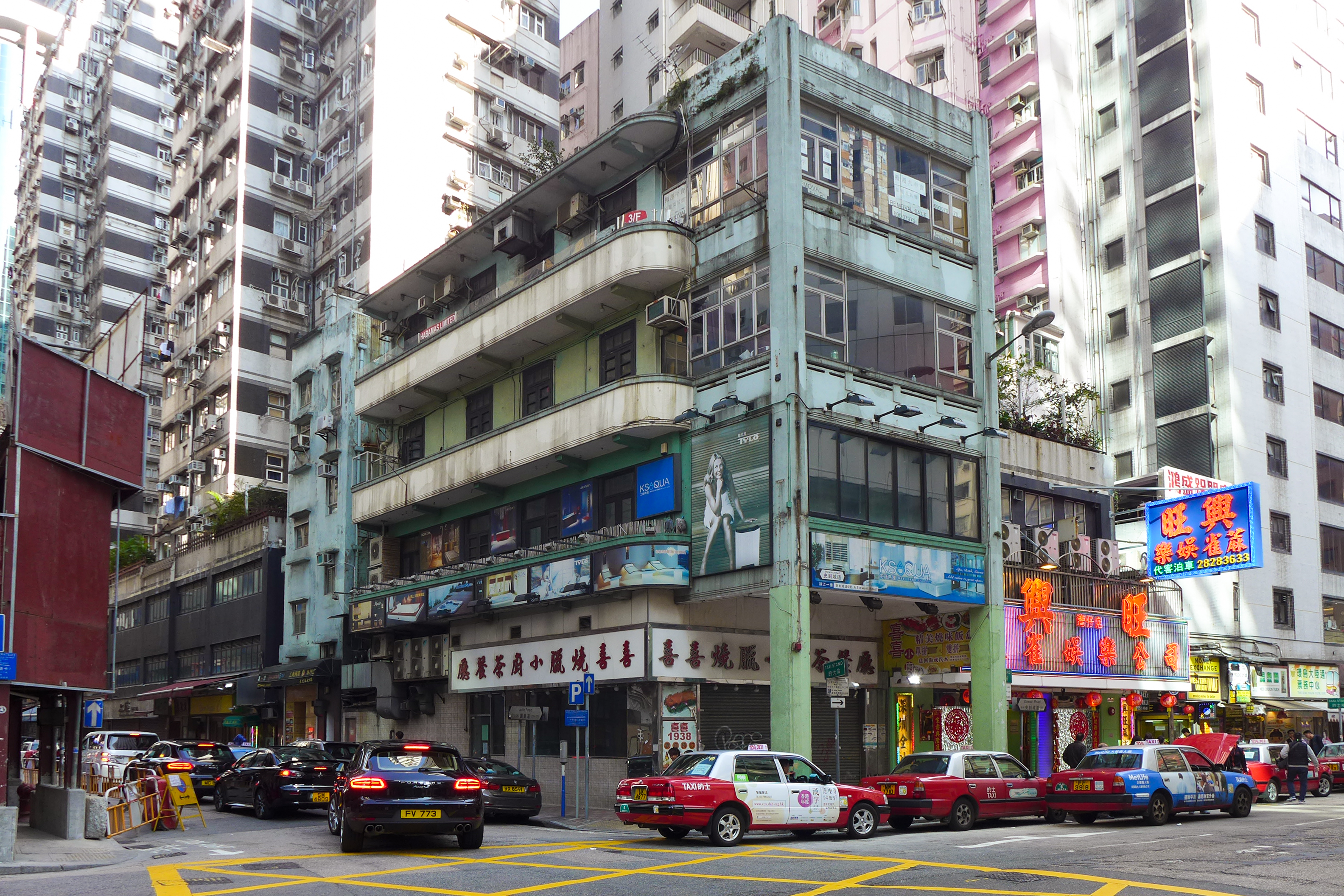 Stewart Road No.6